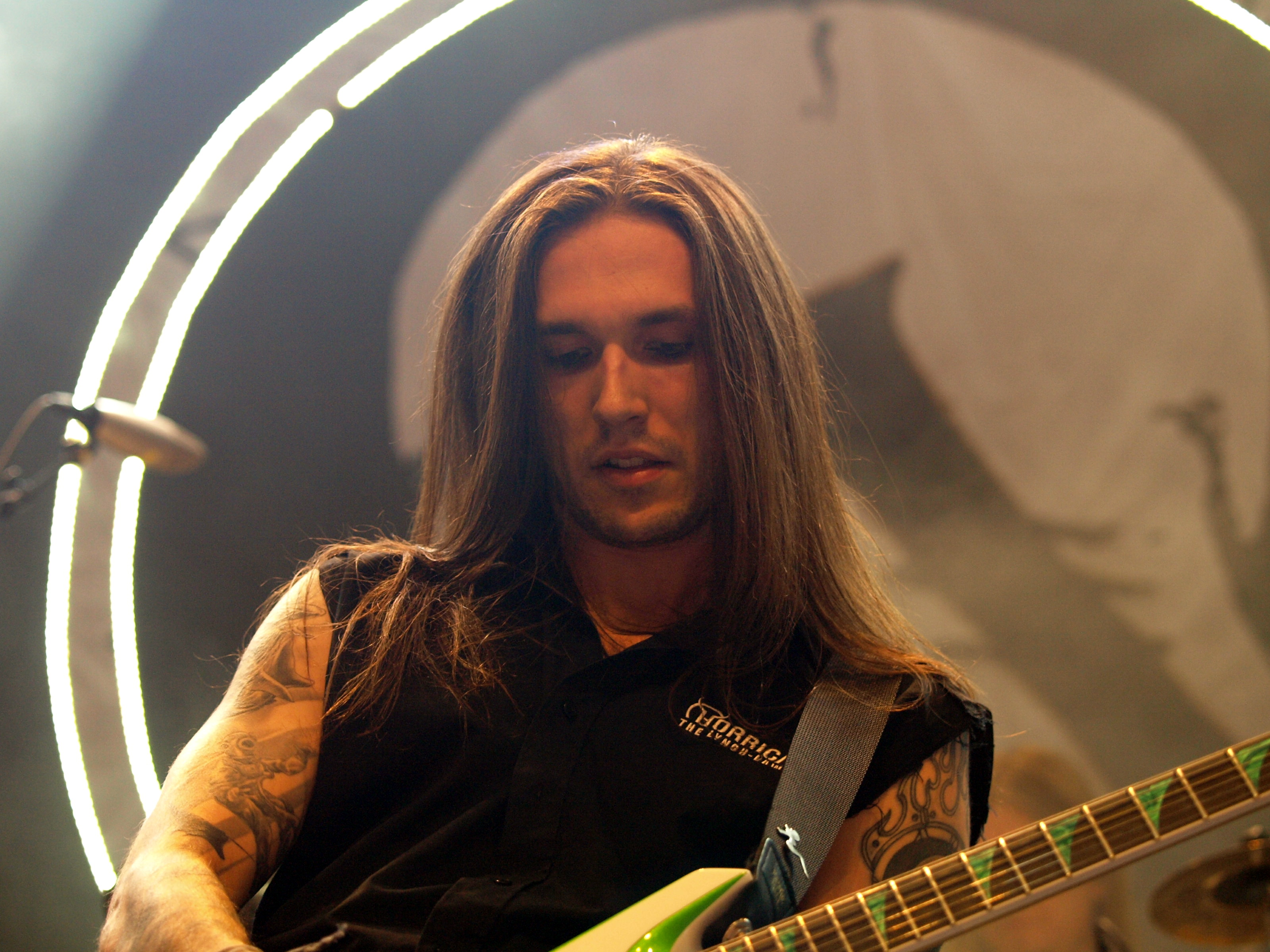 Amoral live at Finnish Metal Expo 2012 in Helsinki